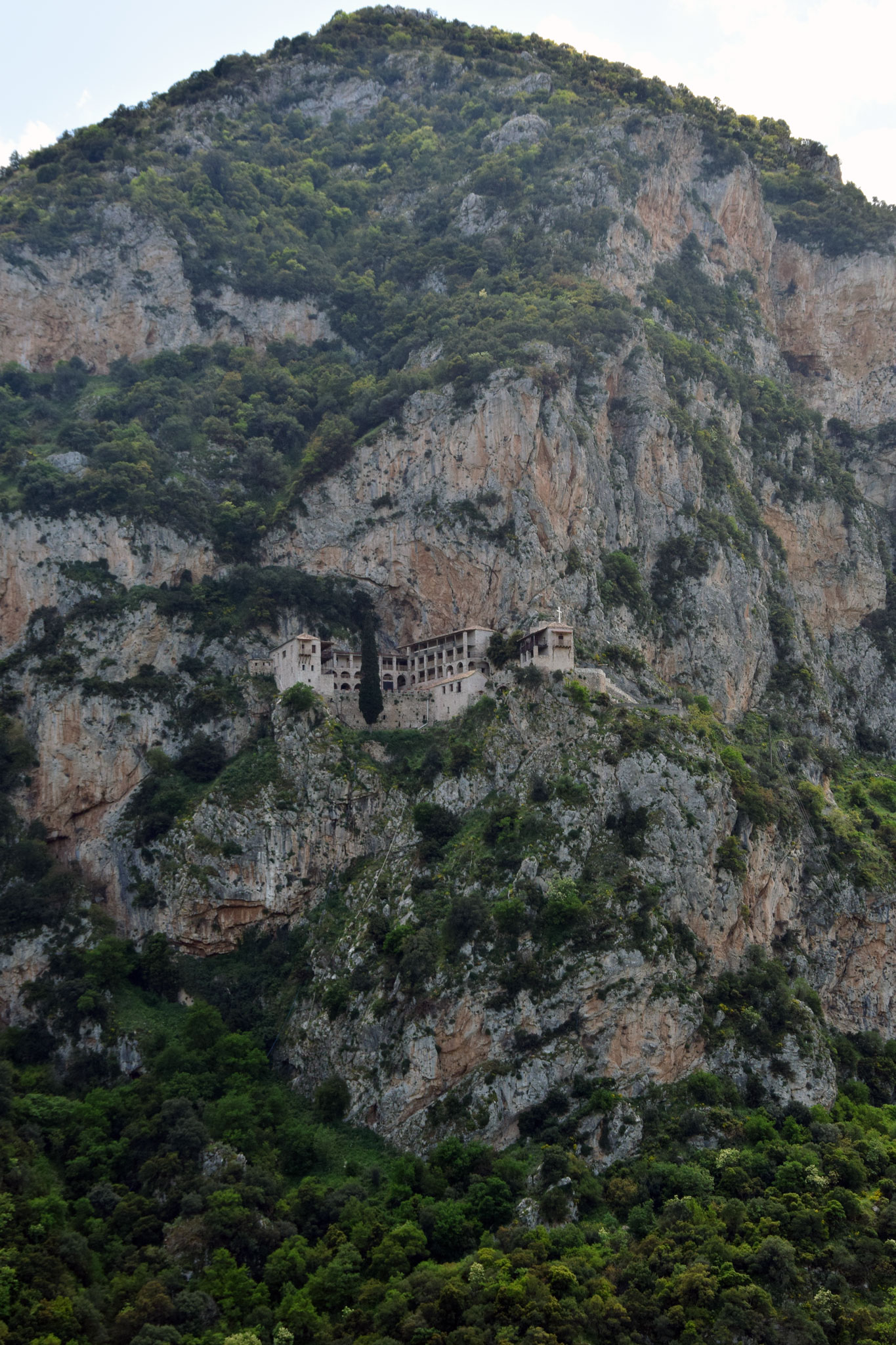 Timios Prodromos monastery in Arcadia, Greece.